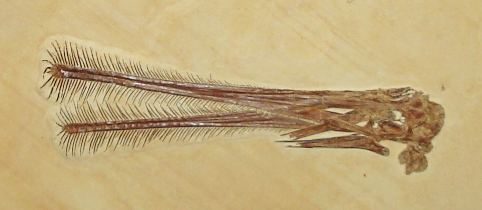 Fossil specimen SMNS 81803, referred to Ctenochasma elegans